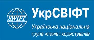 Logo of Ukrainian SWIFT User's Group according to SWIFT guidelines